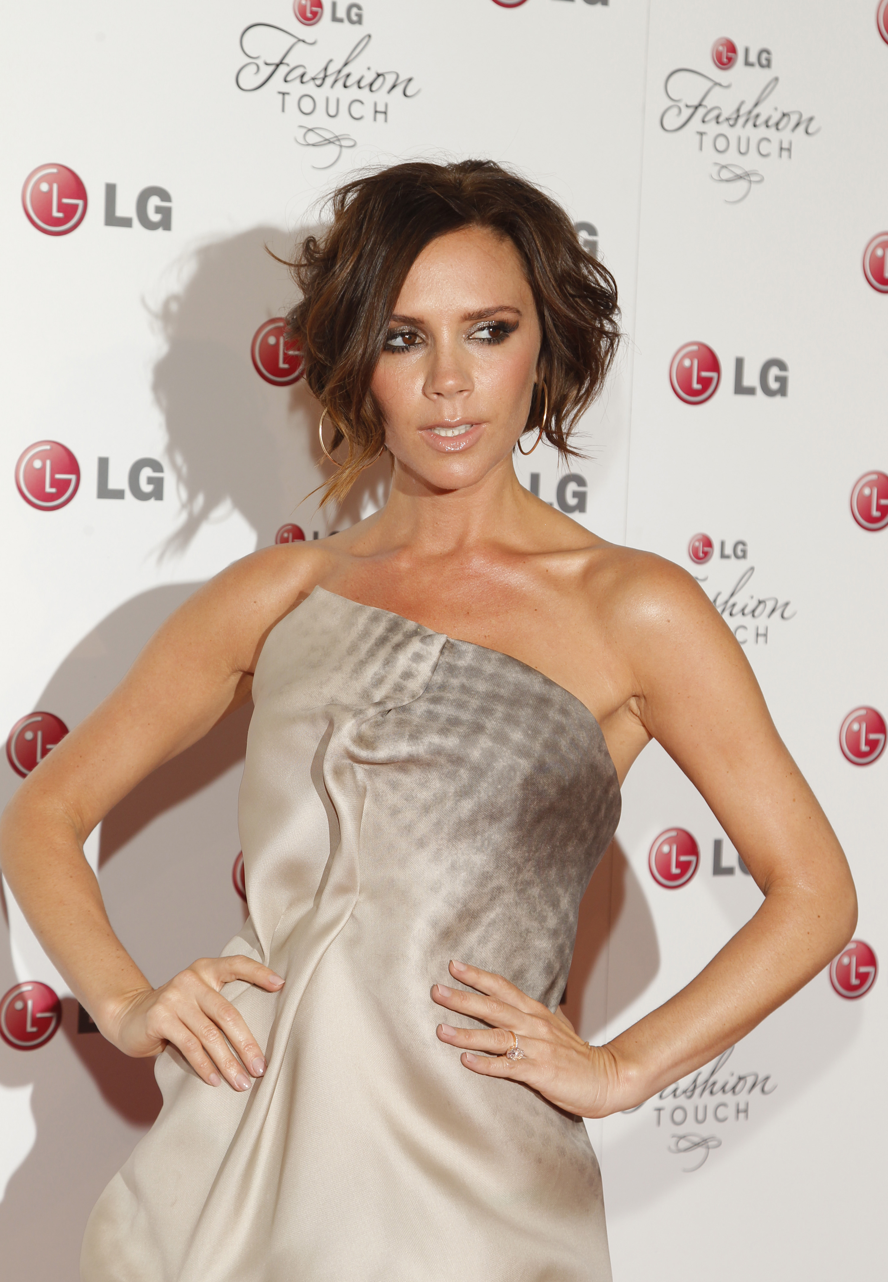 LG Mobile Phone Touch Event Hosted By Victoria Beckham